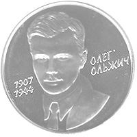 Coin of Ukraine